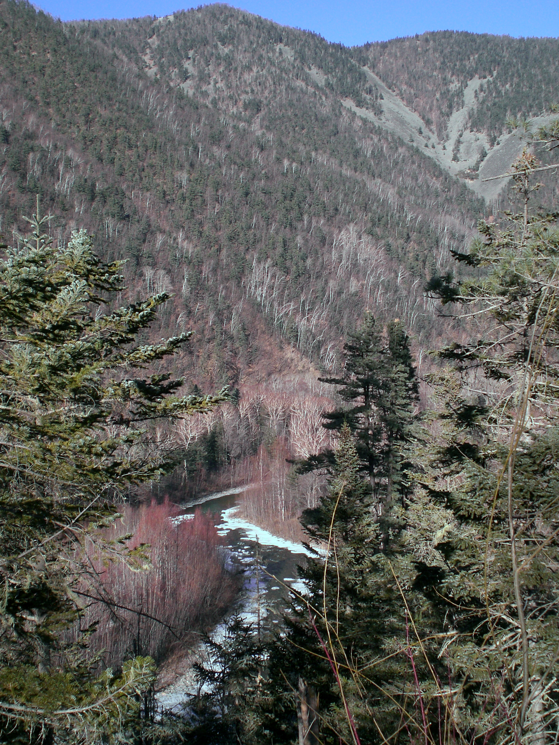 Abies nephrolepis forest, Maximovka river, Terney district, Primorsky region, Russia